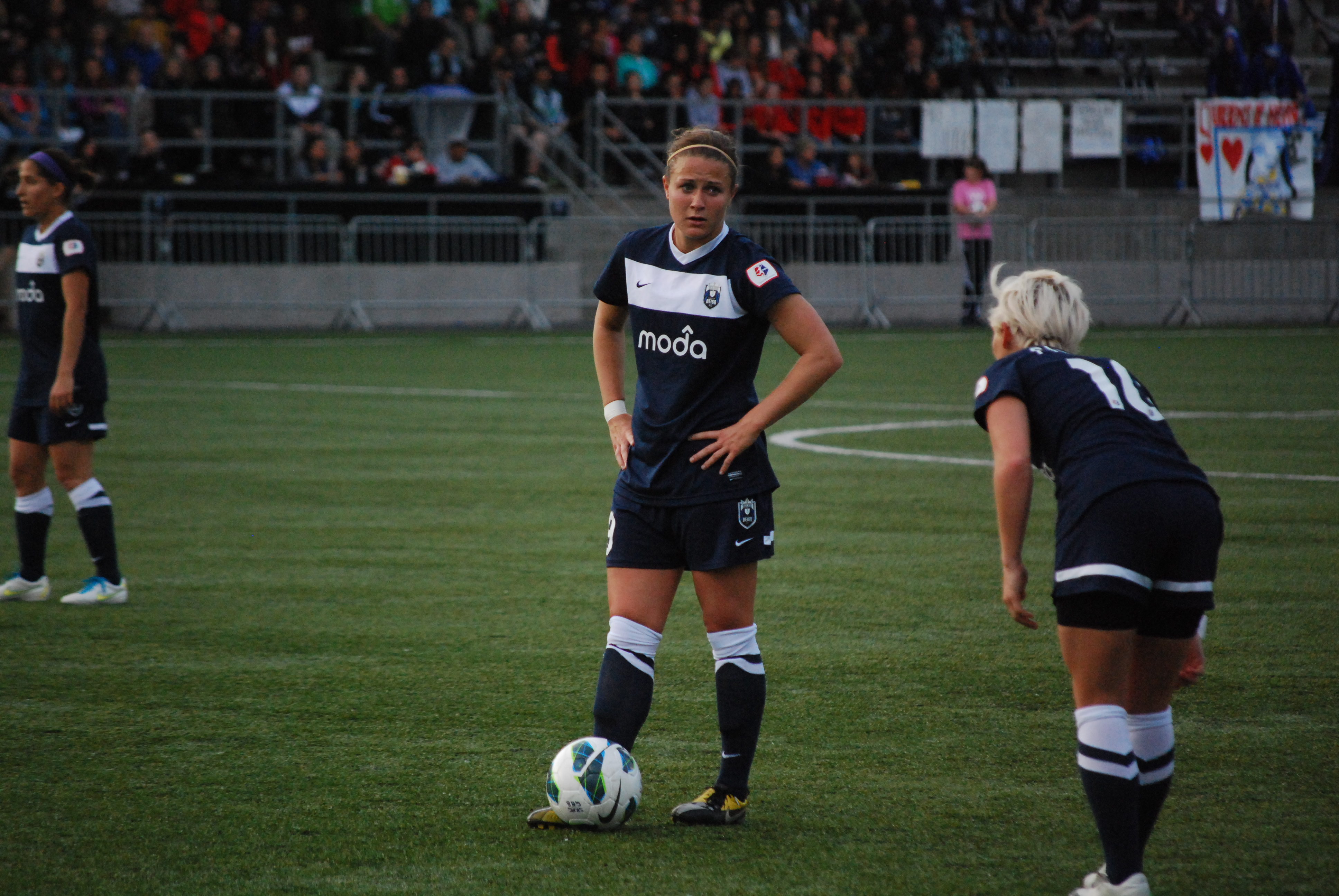 Christine Nairn and Jessica Fishlock free kick during Seattle Reign FC vs Portland Thorns at Starfire Stadium in Tukwila, Washington on May 25, 2013